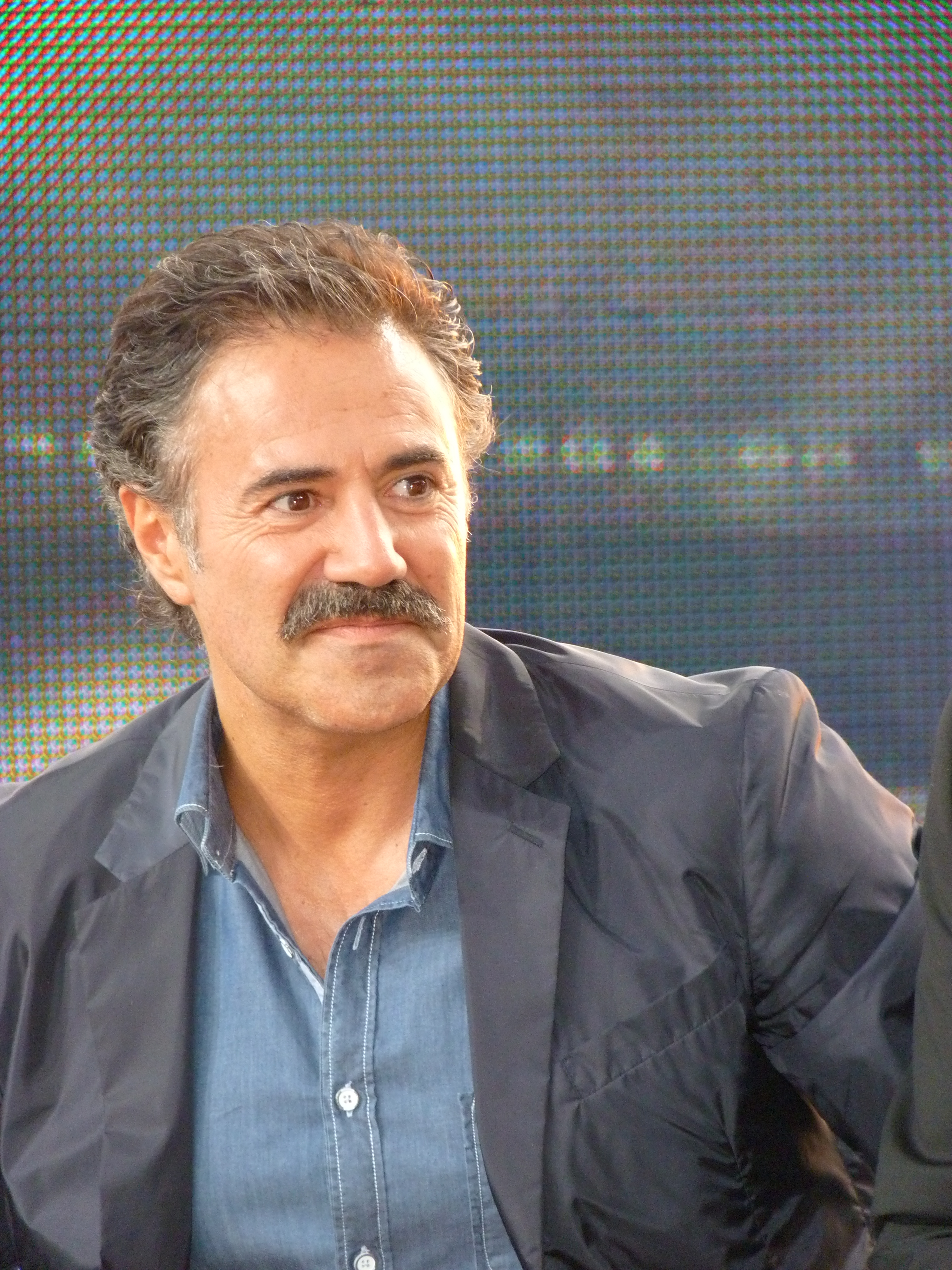 José Garcia at the 2012 Cannes Film Festival.